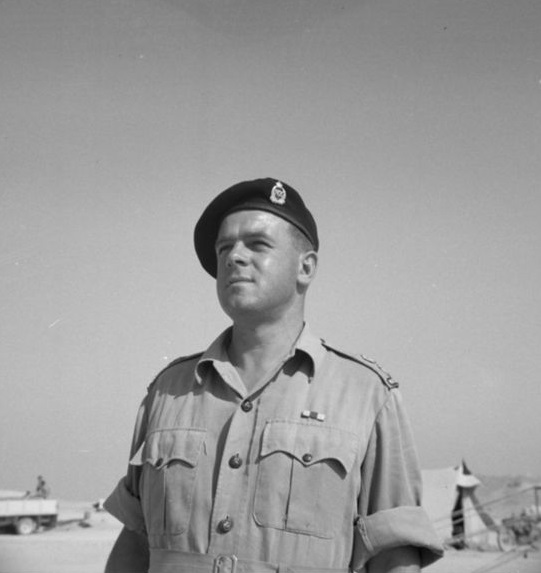 Portrait of Lieutenant Colonel Clive Lochiel Pleasants, Military Cross. Photograph taken at Maadi, Egypt, in August 1943 by George Robert Bull. Department of Internal Affairs. War History Branch :Photographs relating to World War 1914-1918, World War 1939-1945, occupation of Japan, Korean War, and Malayan Emergency. Ref: DA-04367-F. Alexander Turnbull Library, Wellington, New Zealand. George Bull was an official photographer of the NZ Military Forces and thus copyright in this work rests or rested with the Crown. The Crown has released this work under the CC-BY 3.0 unported license. Refer to source website for details: This work's copyright expired 50 years after creation in New Zealand and probably also in countries following the rule of the shorter term. Date